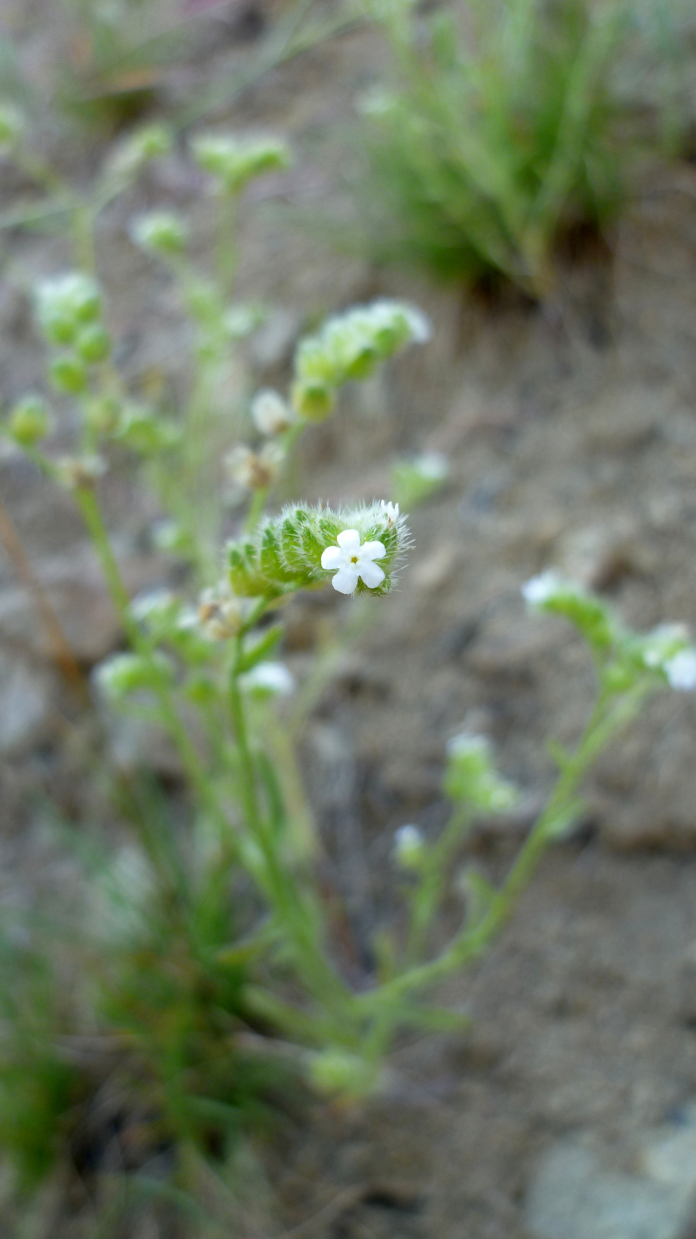 Cryptantha pterocarya in Swakane Canyon, Chelan County Washington